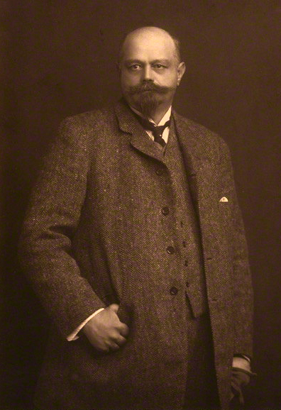 by Langfier Ltd, sepia carbon print, circa 1906, NPG P962